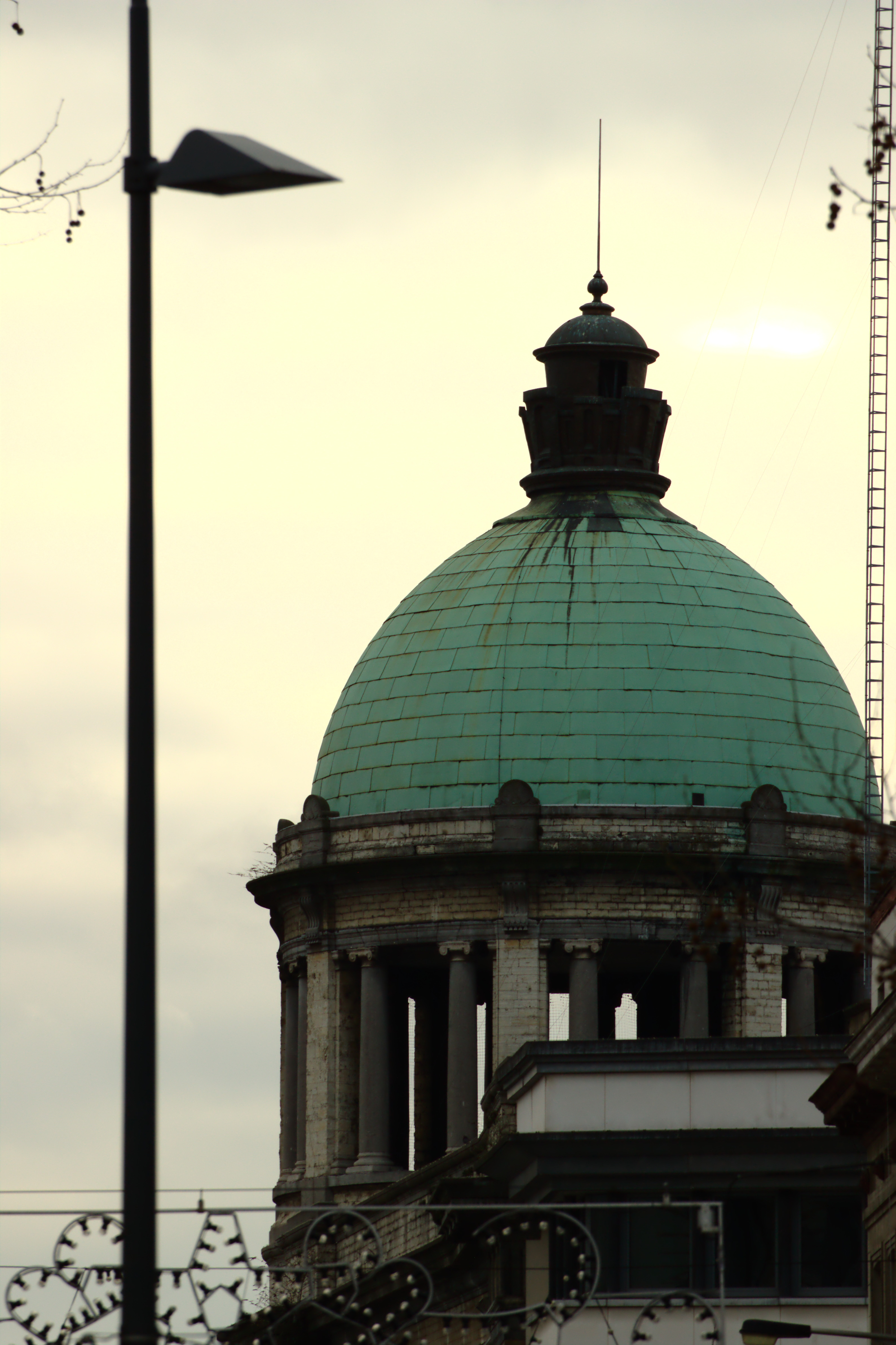 A cupola of the corner house at Place Comunale Street, Brussels